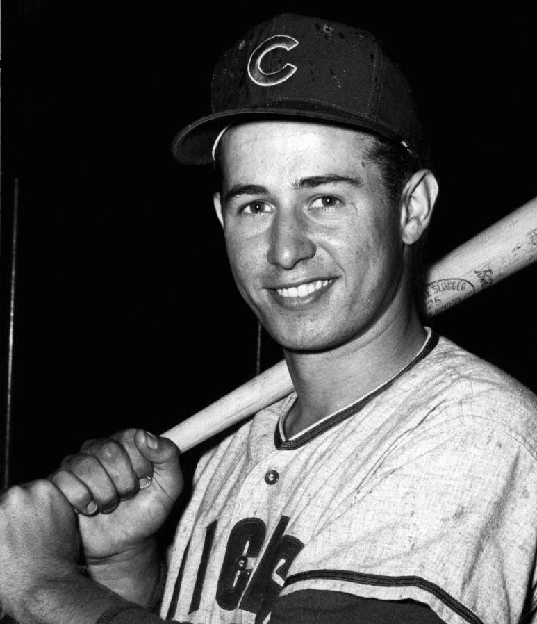 Photo of Chicago Cubs' third baseman, Ron Santo, in 1961.